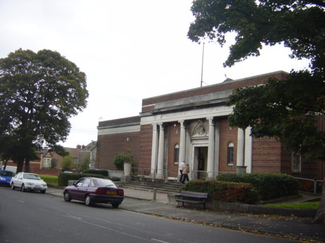 Williamson Art Gallery & Museum, Birkenhead This purpose built Art Gallery was opened in December 1928 and houses the vast majority of Birkenhead's collection of artistic masterpieces. On permanent display are Victorian oil paintings, English watercolours, Liverpool Porcelain, DellaBir Robbia Pottery and a range of collections from local history and ship models to fine decorative arts (part of the Merseyside Embroidery Trail).